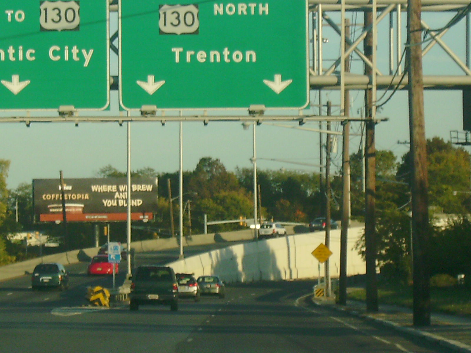 U.S. Route 130 heading northward through Camden County.